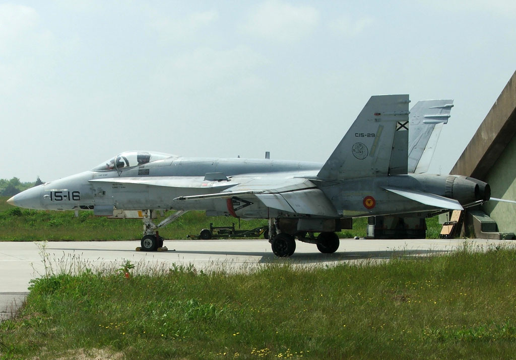 Spanish air force F-18 Hornet at Skrydstrup Airbase